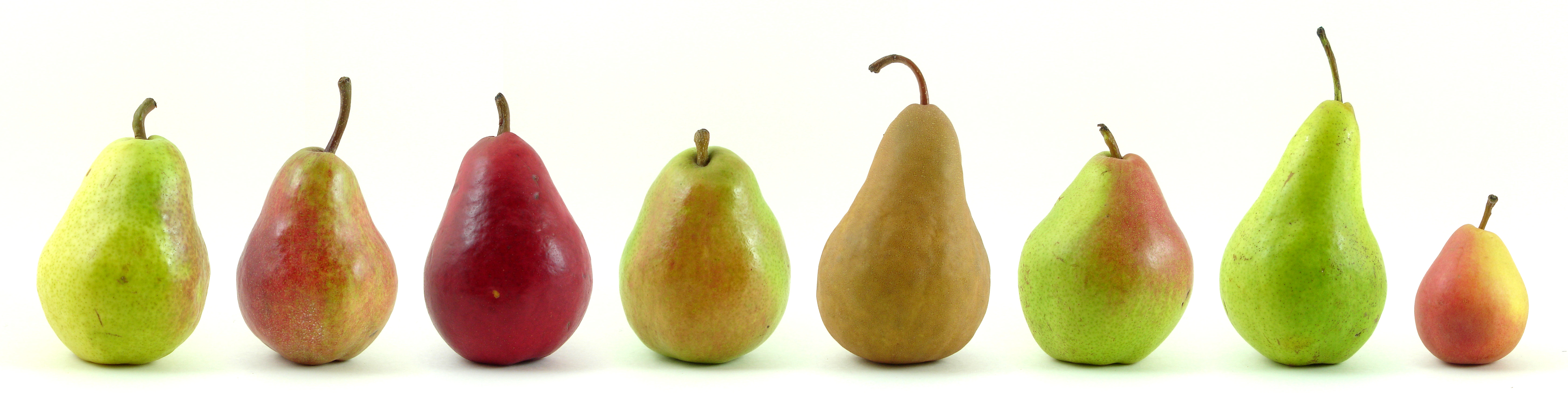 Eight varieties of pears from U.S. markets. These were purchased in the U.S. state of Michigan, at two grocery stores, in October 2007. Names sold under, from left to right, with notes in parentheses Bartlett (also called a Yellow Bartlett, known as the Williams outside North America) Red Bartlett (organic; presumably a Red Williams in other countries) Red Bartlett (several distinct varieties are called "red bartletts"; not sure store's name is correct but that's what it was labeled) D'Anjou Bosc (organic) Comice Concorde Seckel (they really are that small relative to others) For relative sizes, the third pear, the bright red one, is 3 1/16 inches wide at its widest, and 4 1/4 inches tall excluding the stem.